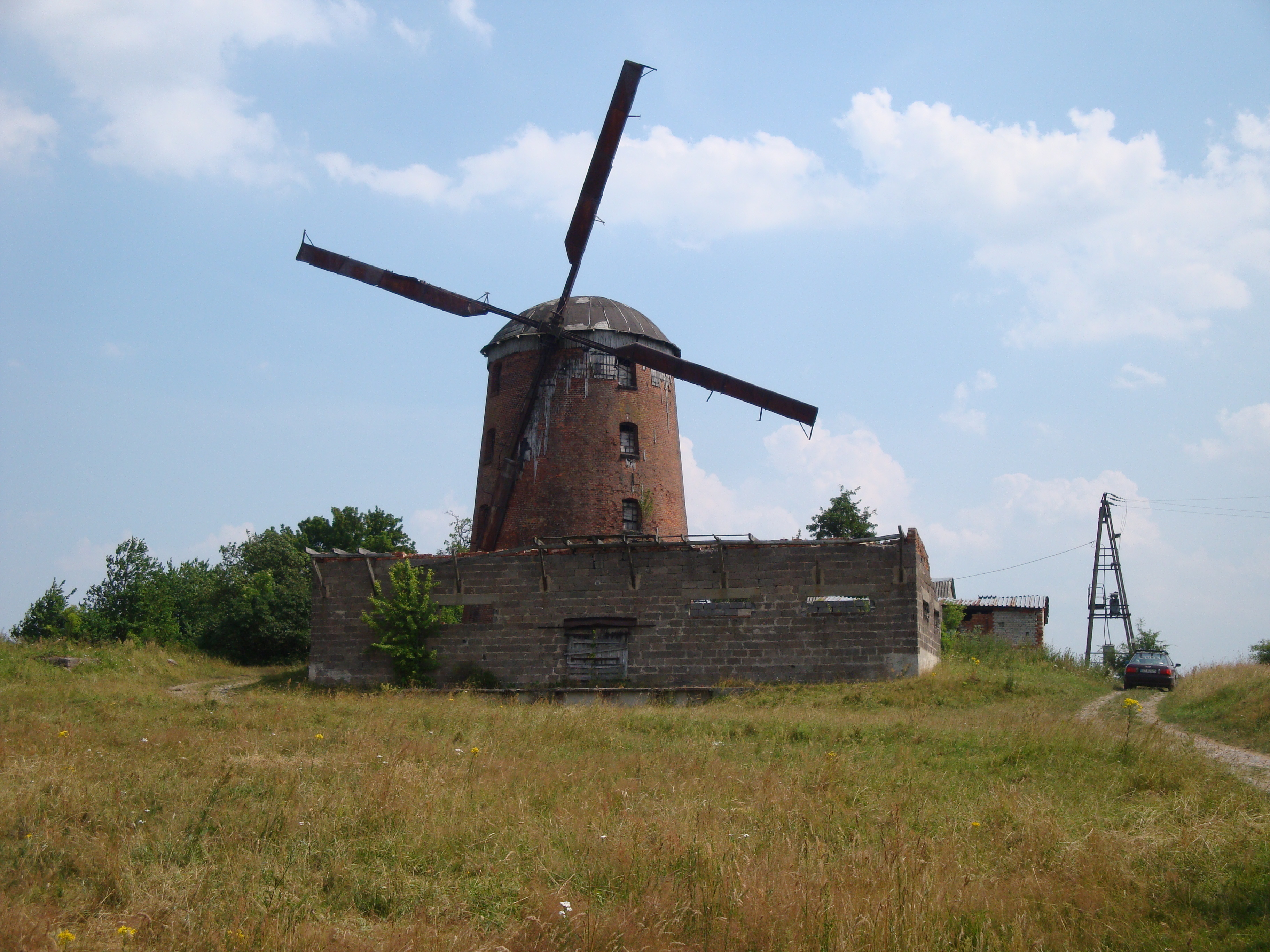 Zdrzewno-village in Gmina Wicko, Poland. Windmill's remains